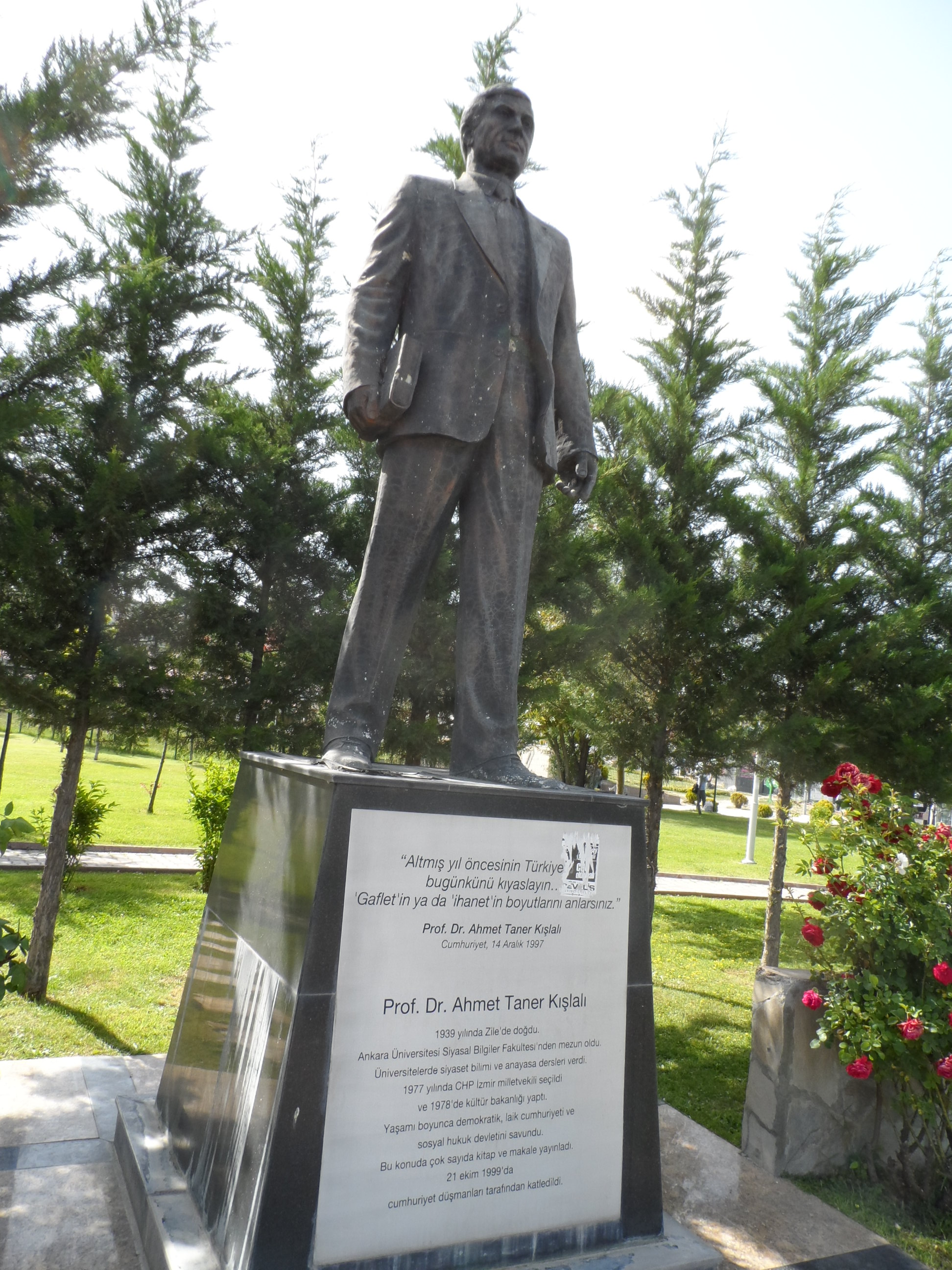 Statue of Ahmet Taner Kışlalı in Çayyolu, Ankara